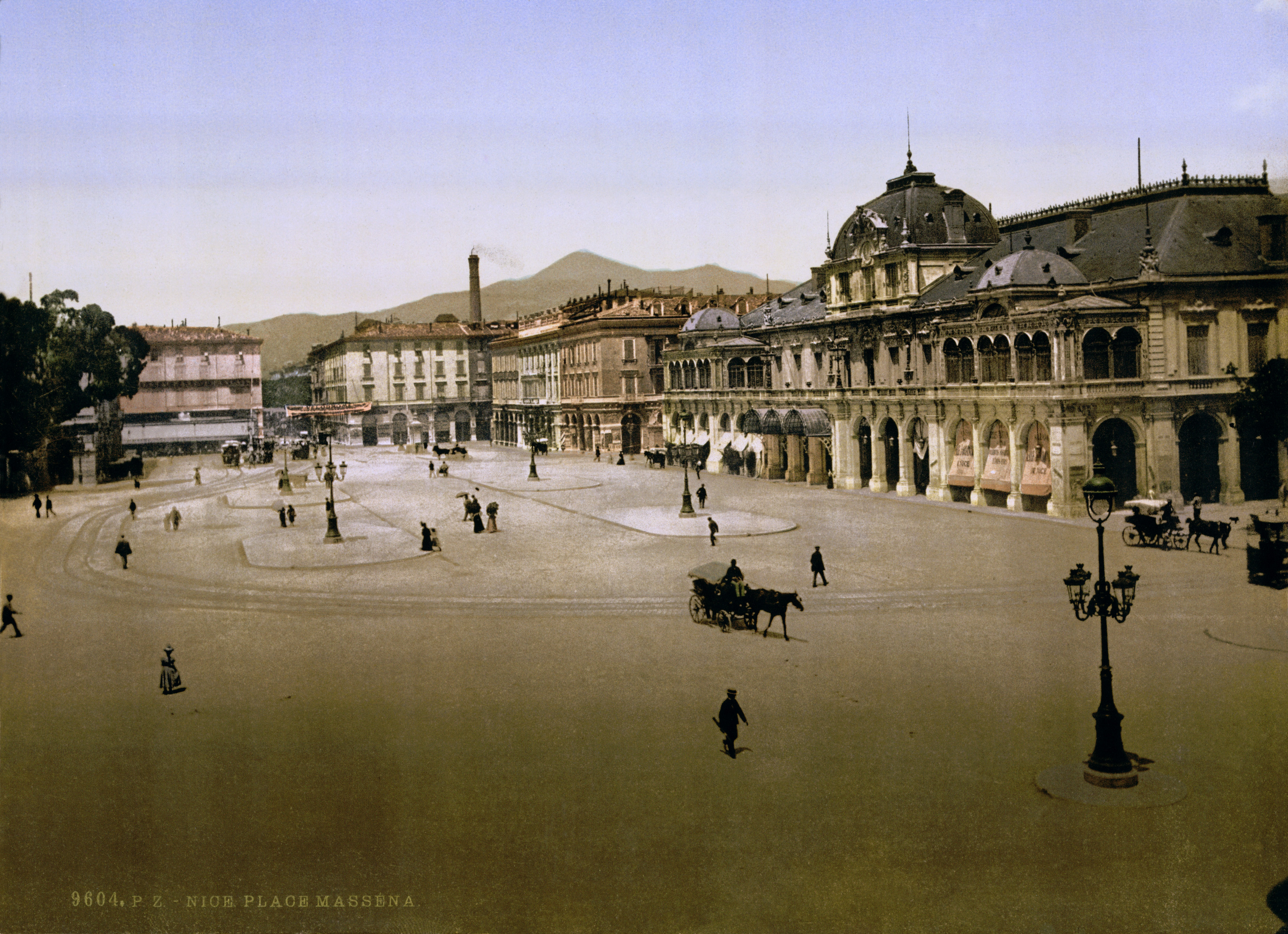 9604 P.Z. Nice, Place Masséna. Photochrom print by Photoglob Zürich, between 1890 and 1900. From the Photochrom Prints Collection at the Library of Congress More photochroms from France | More photochrom prints [PD] This picture is in the public domain